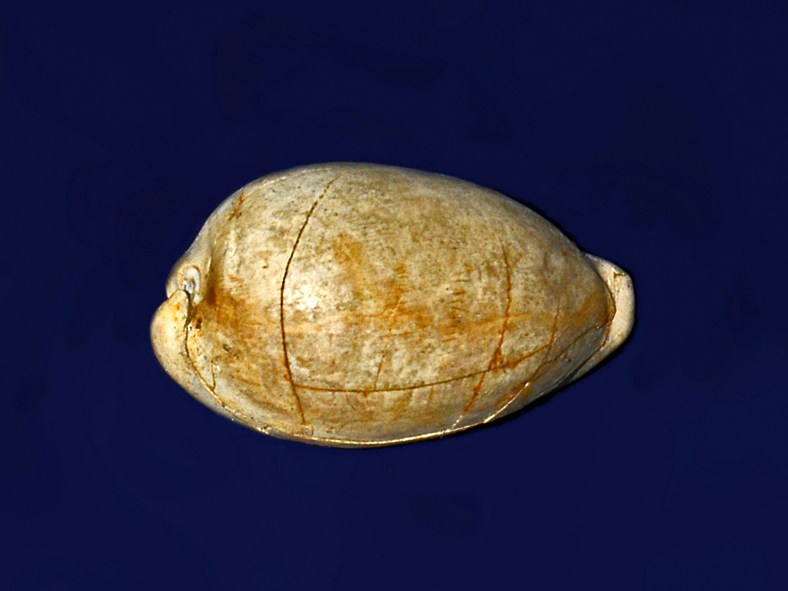 Fossil shell of Schilderia flavicula from Pliocene of Italy, on display at the Museo Paleontologico, Asti